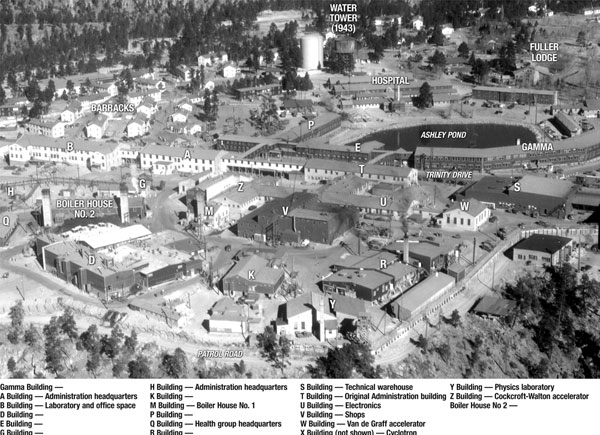 Los Alamos Tech Area with names of buildings